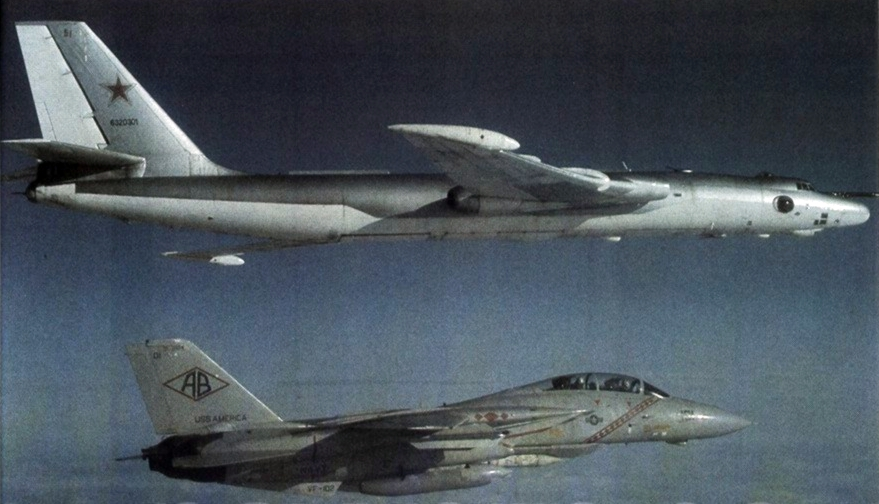 A U.S. Navy Grumman F-14A Tomcat from Fighter Squadron VF-102 "Diamondbacks" intercepting a Soviet Myasishchev 3M Molot (s/n 6320301, NATO reporting code "Bison-B"). VF-102 was assigned to Carrier Air Wing 1 (CVW-1) aboard the aircraft carrier USS America (CV-66) for a deplyoment to the Mediterranean Sea and the Indian Ocean from 8 December 1982 to 2 June 1983.